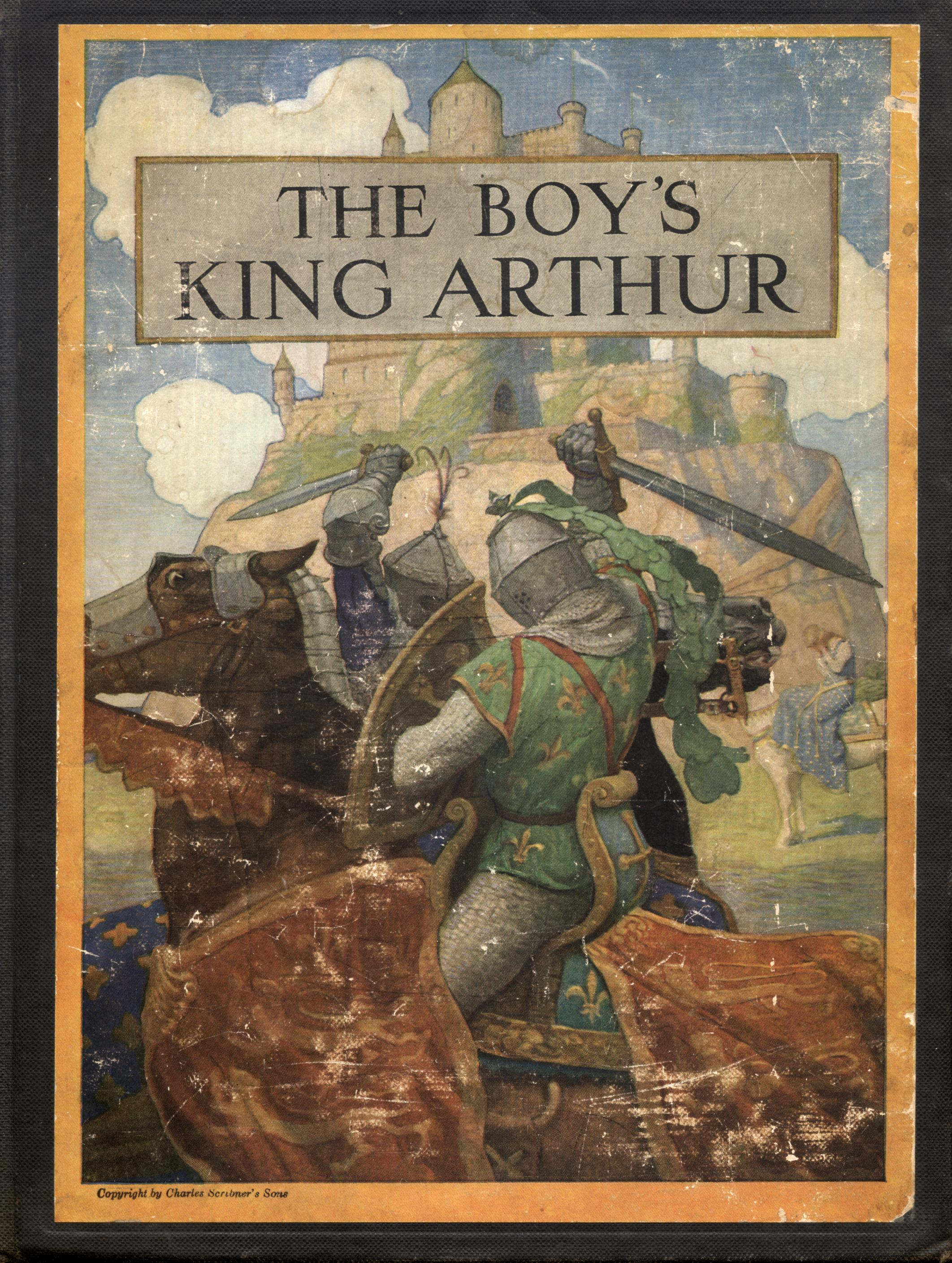 Cover of The Boy's King Arthur.